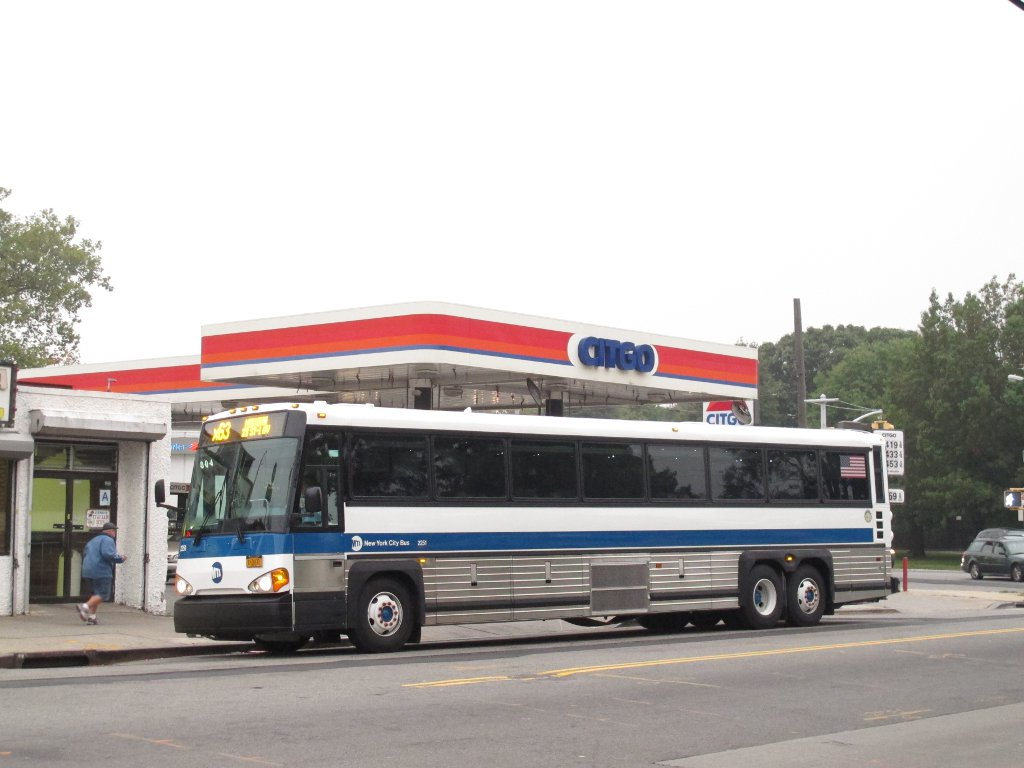 MTA New York City Bus MCI D4500CT #2251 leaves a stop in Rosedale, Queens, on the X63 express route.